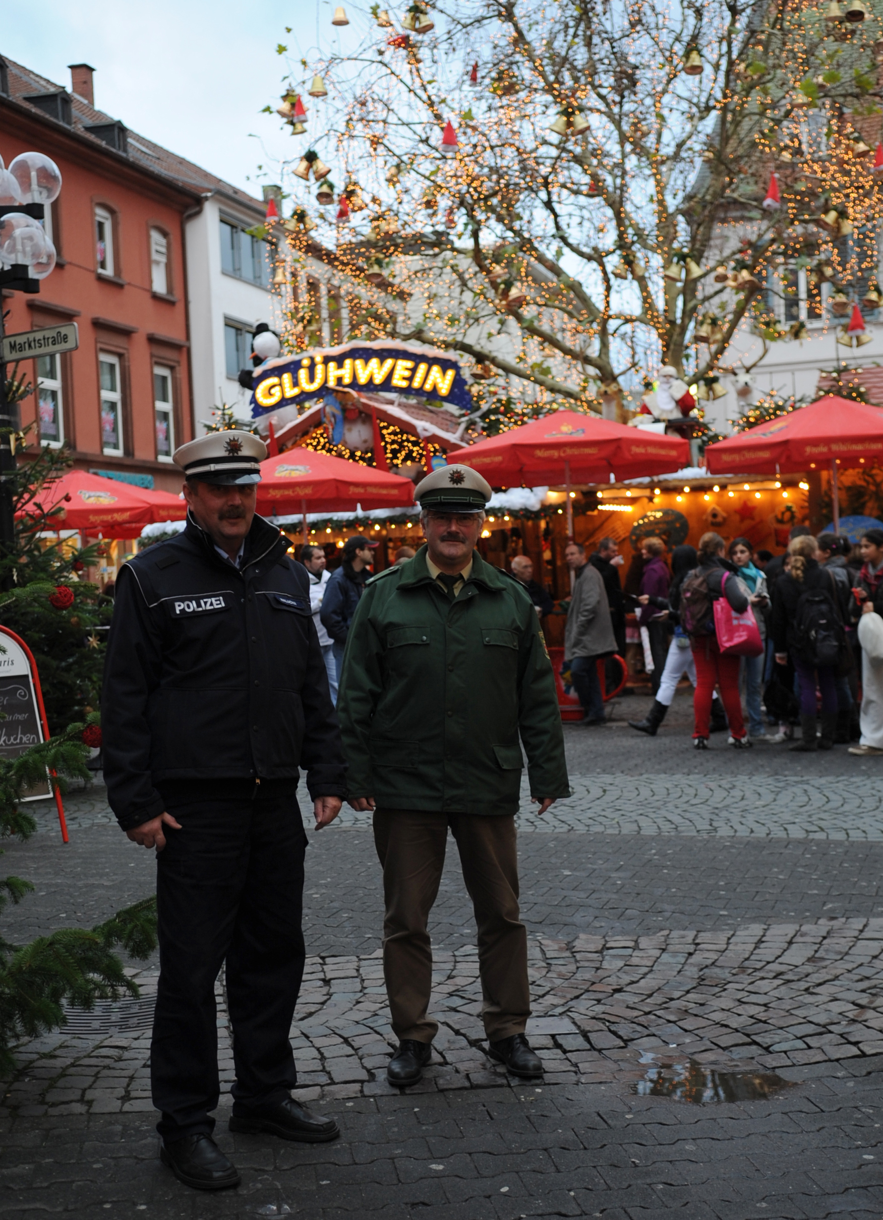 German Polizei pose for a photo during the 27th Pre-Christmas Crafts Market in Kaiserslautern, Germany, Dec. 3, 2009. This annual event hosted by the German-American Community Office brings communities together during the holidays having more than 40 booths and activities that were set up in town and will be in place through Dec. 22, 2009. (U.S. Air Force photo by Airman 1st Class Caleb Pierce)